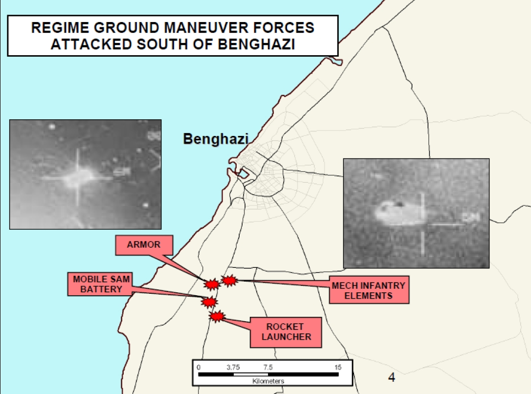 Operation Odyssey Dawn in Libya 2011. Regime ground maneuver forces attacked south of Benghazi, 20 March 2011.